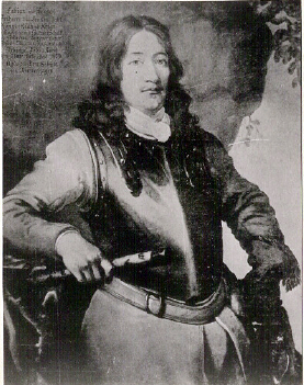 Portrait of Swedish field marshal Fabian von Fersen (1626-1677)